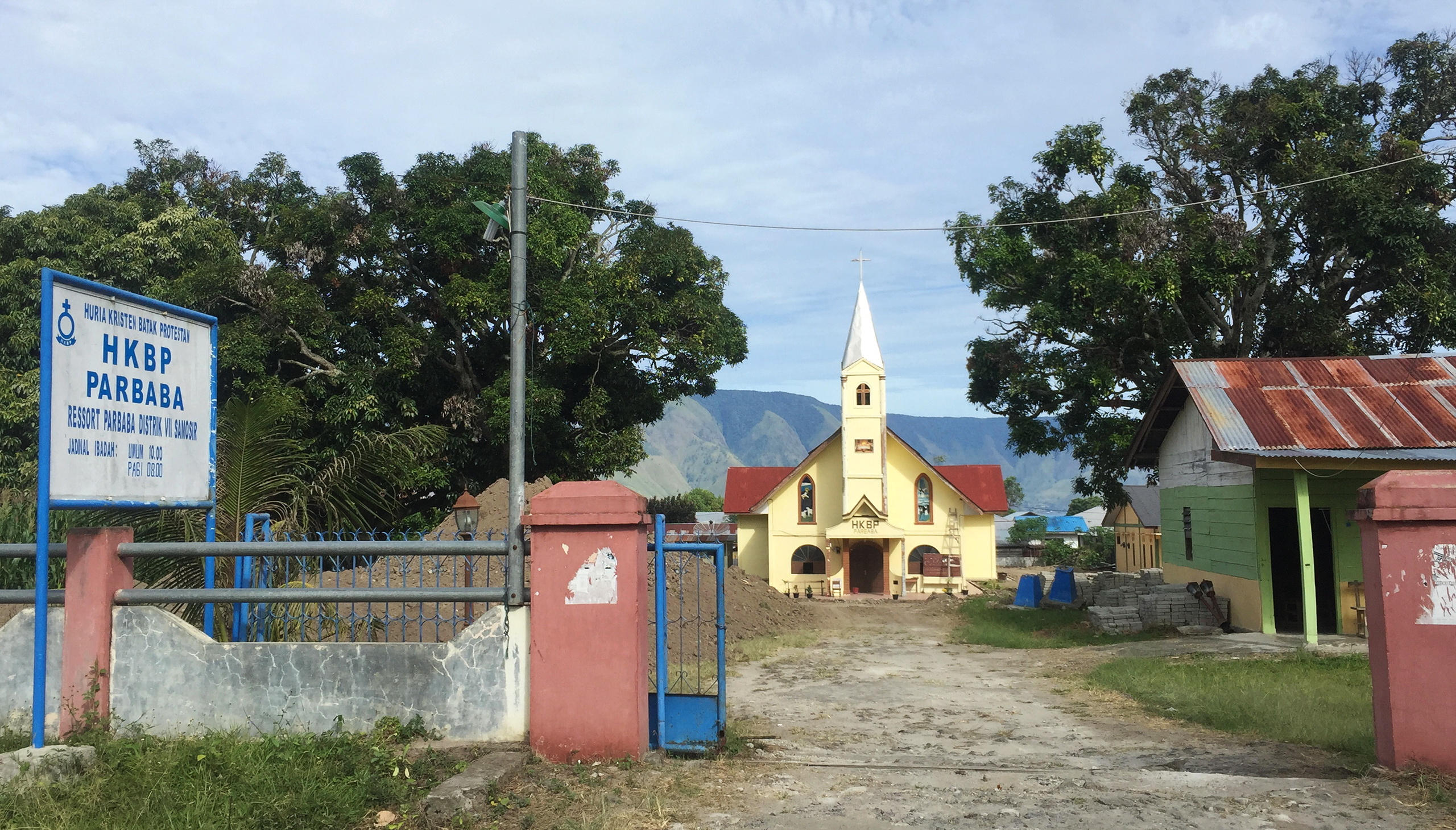 HKBP Church in Parbaba, Huta Bolon, Simanindo, Samosir.